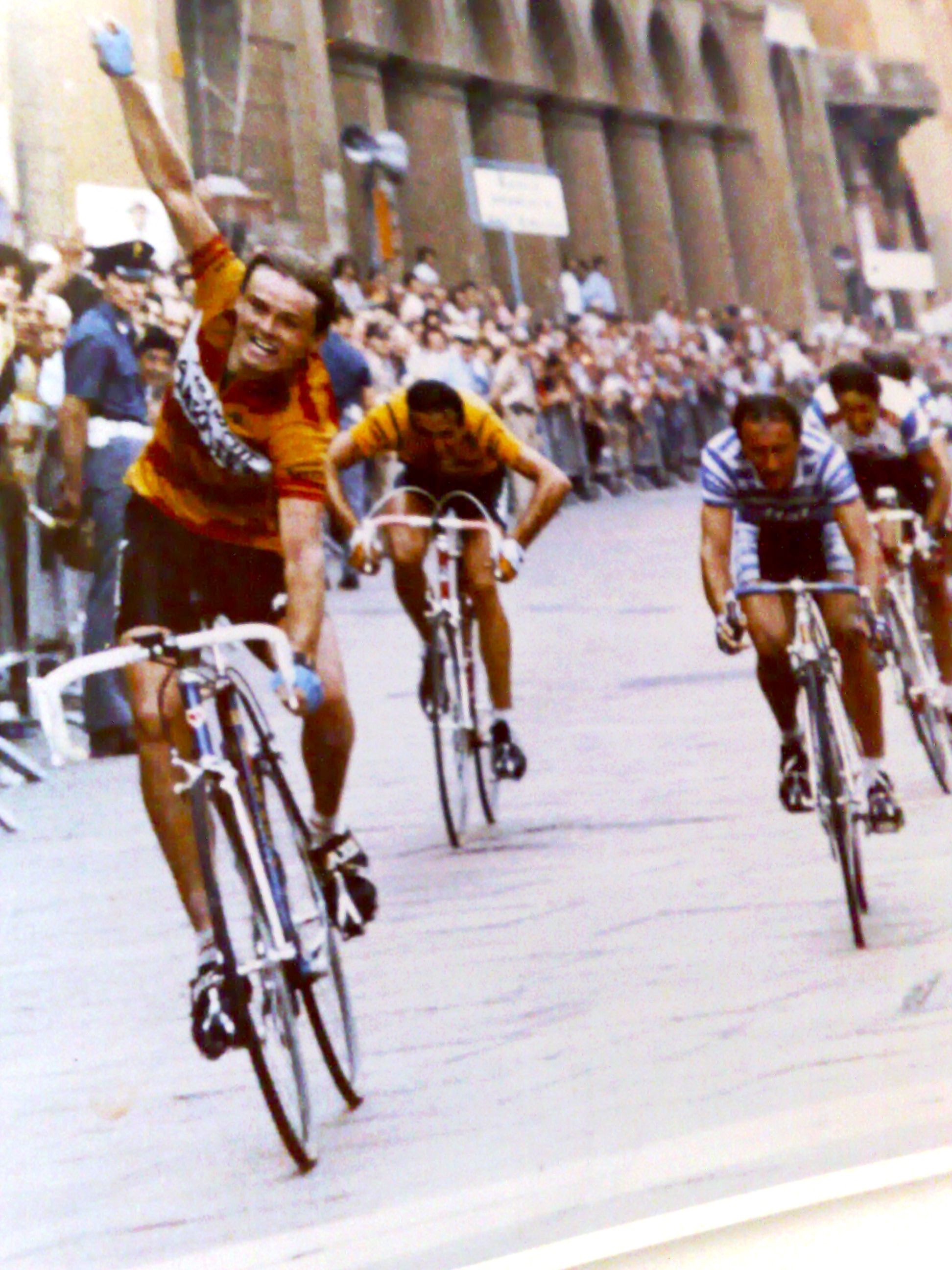 Dag Erik Pedersen, Norwegian TV anchor and retired road racing cyclist. From the Giro dell'Emila, Italy 1986.